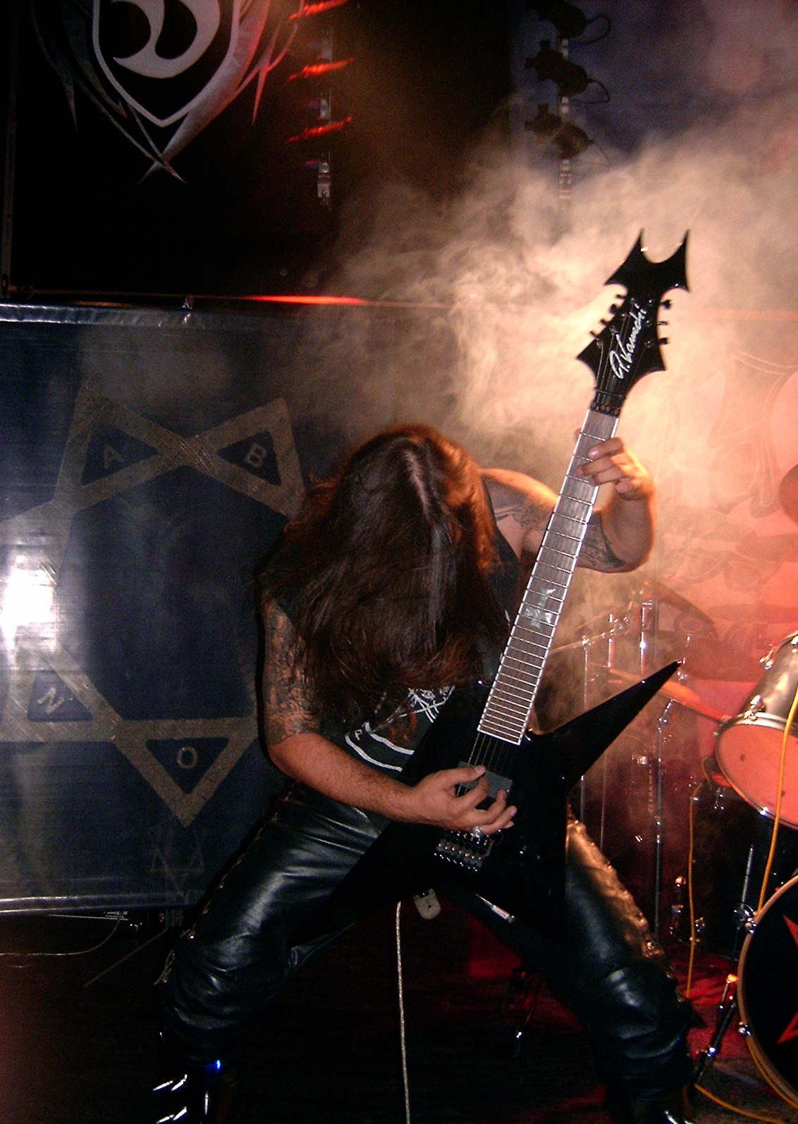 Lost Soul a polish death metal band playing live on tour with Vader in Poland